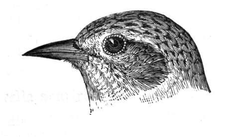 Head of Calandrella raytal raytal